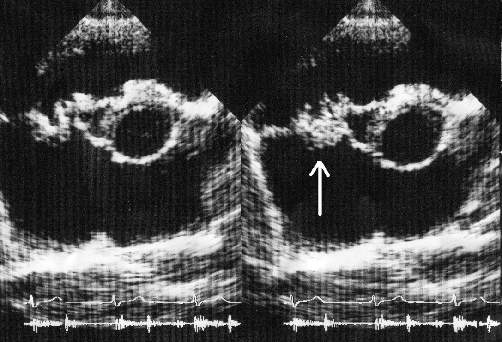 Vegetation on tricuspid valve by echocardiography. Arrow denotes the vegetation.